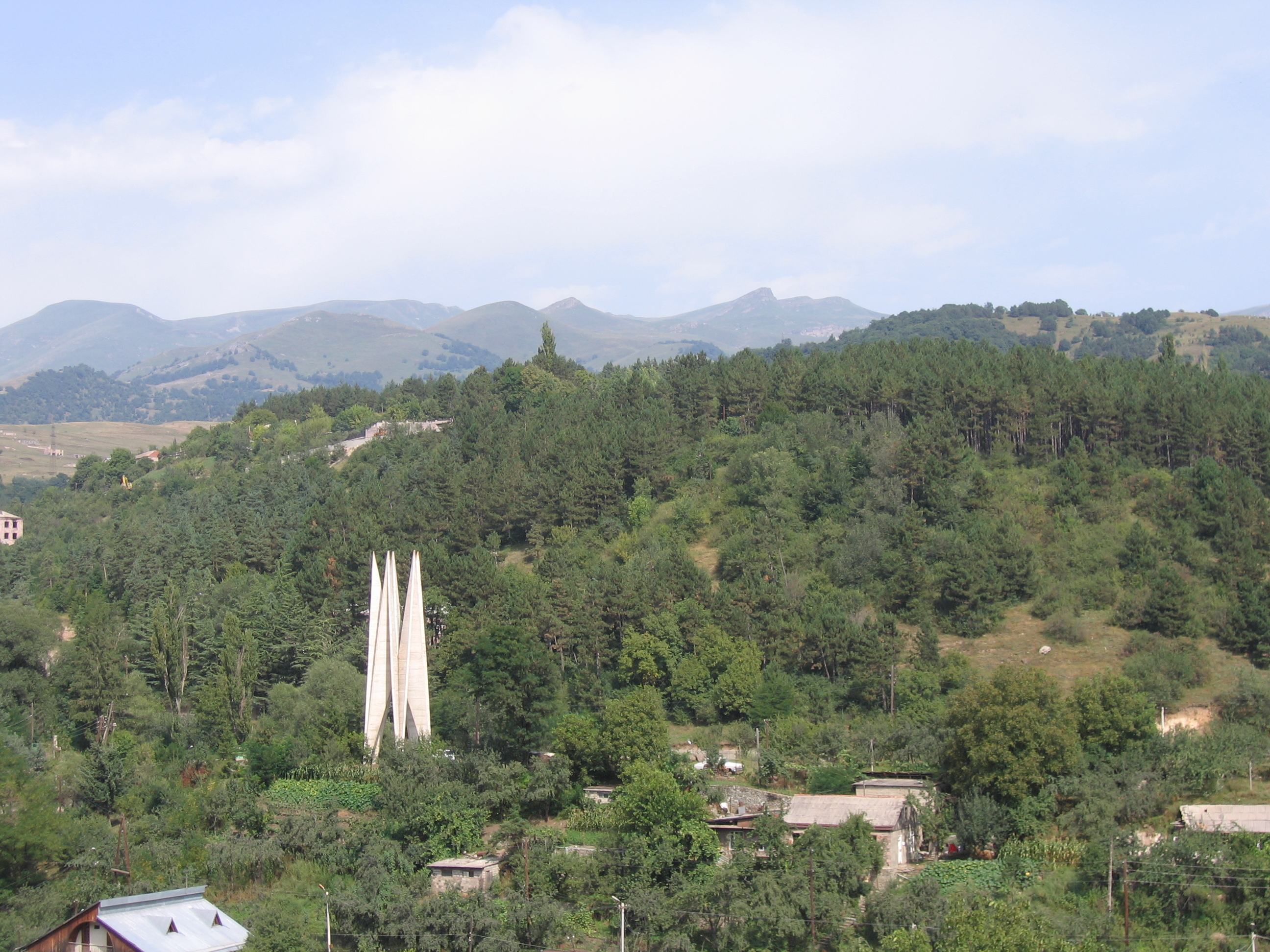 view on Dilijan